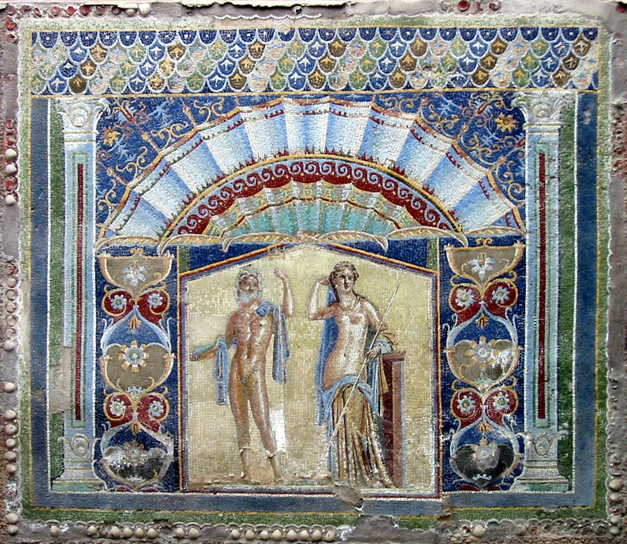 Herculaneum. Ancient Roman mosaic with Neptune and Amphitrite, on display in the "House of Neptune and Amphitrite" (# 22).